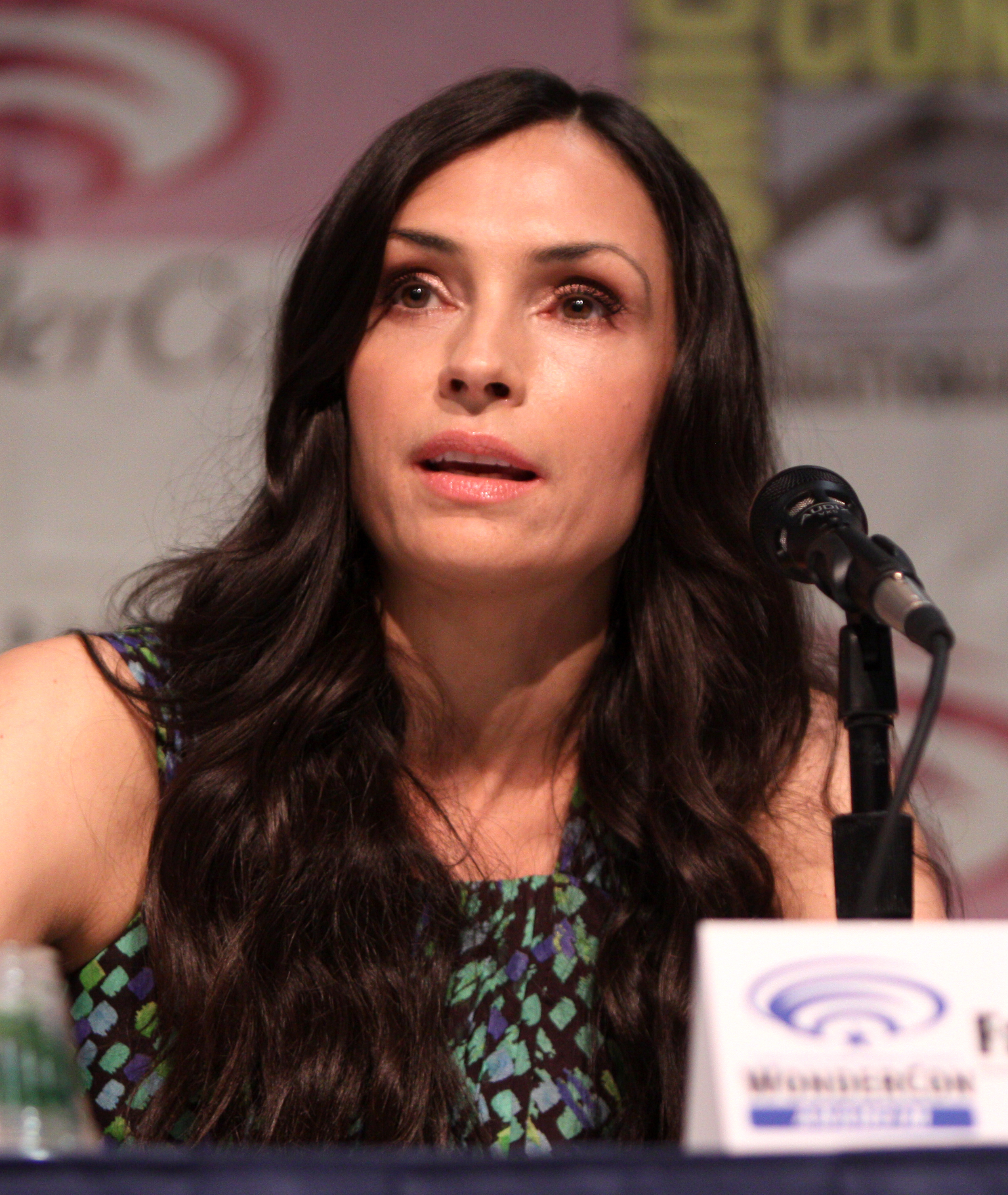 Famke Janssen speaking at the 2013 WonderCon in Anaheim, California on March 29, 2013.